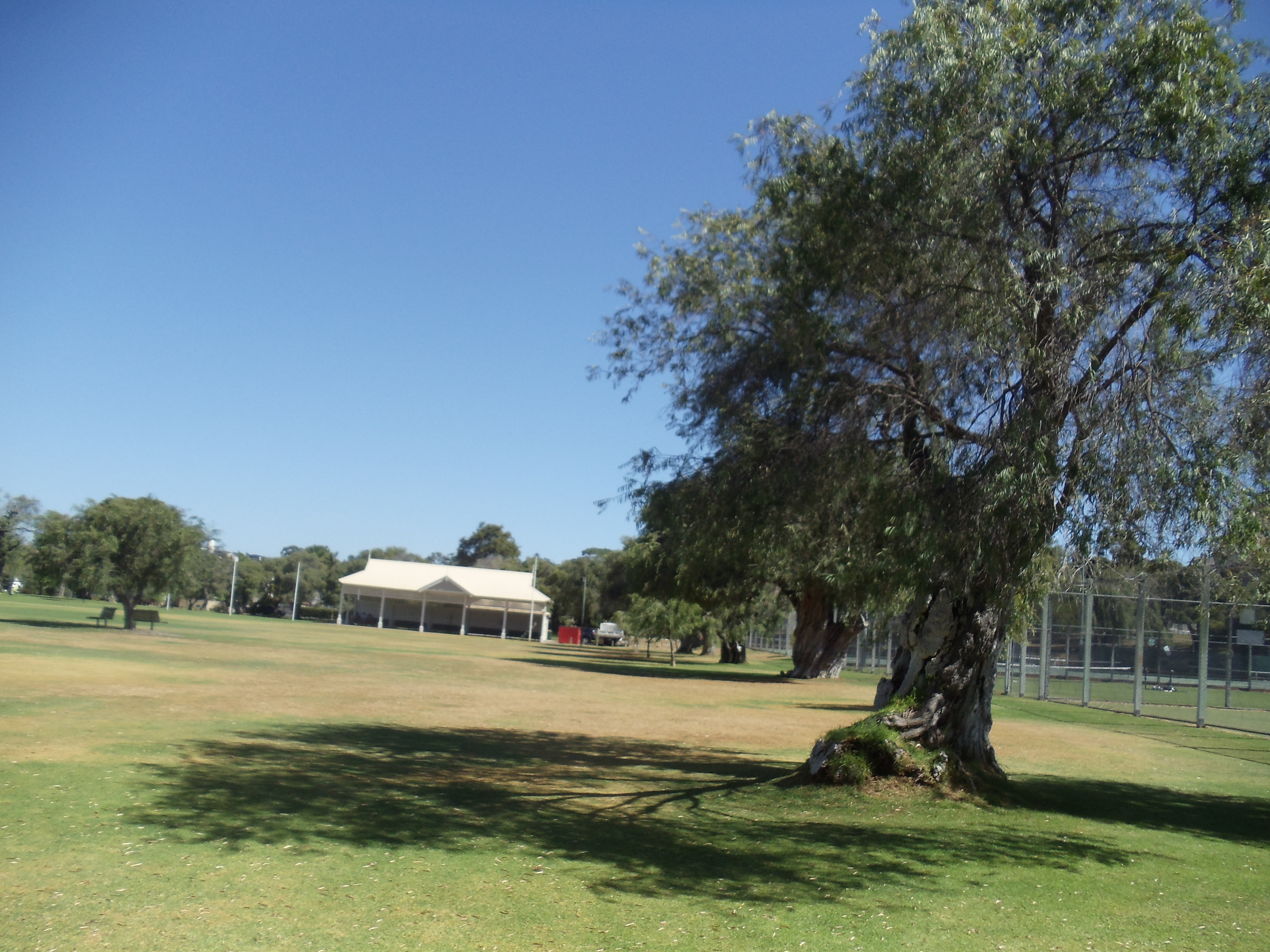 View of Manners Hill Park showing the pavilion and a tree in Peppermint Grove, Western Australia.